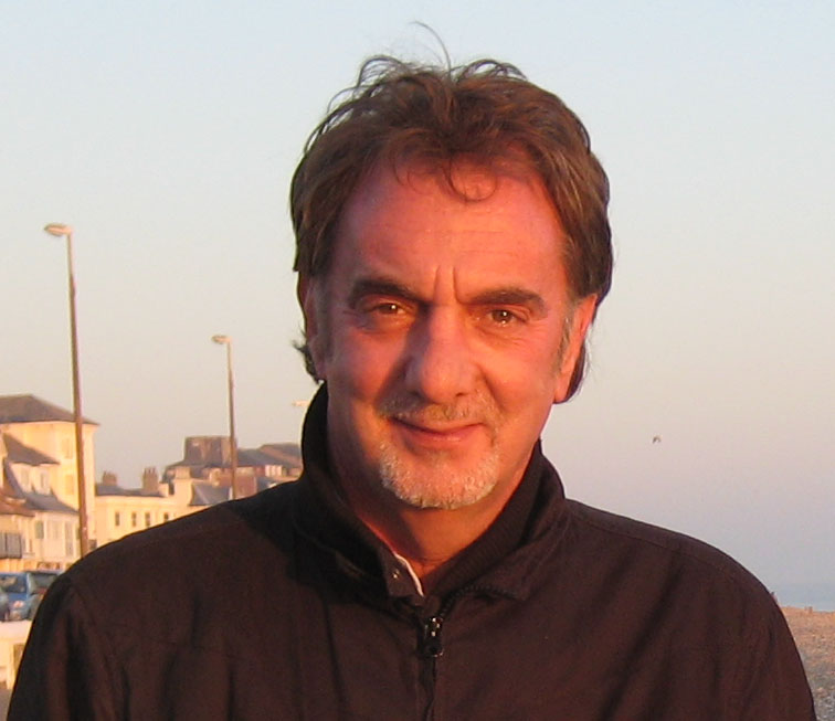 Email from subject, Ticket:2010081210012511